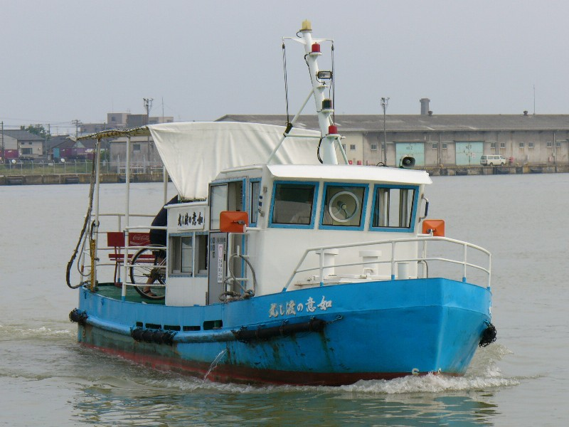 Nyoinowatashi river ferry, connecting Takaoka city and Imizu city , Toyama prefecture Japan